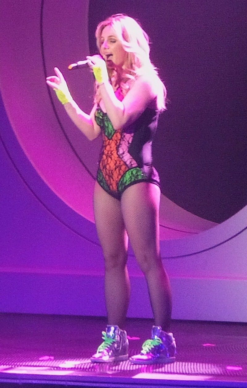 Britney